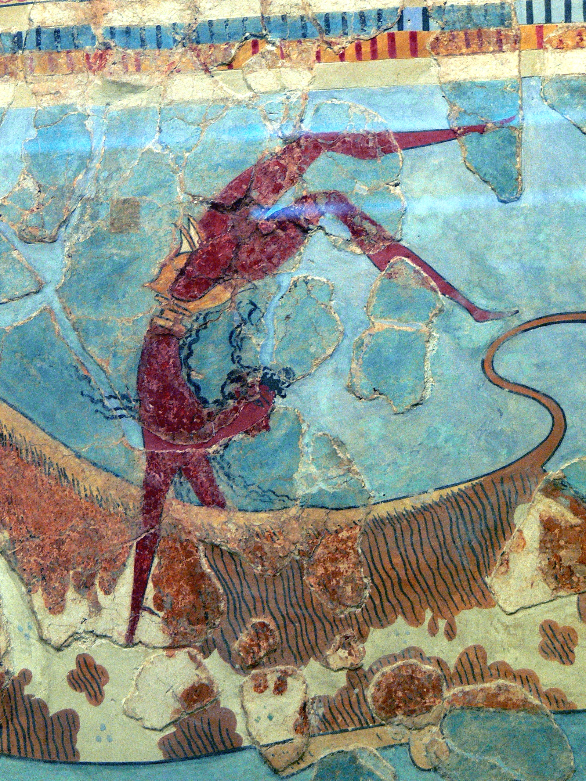 Archaeological Museum of Herakleion. Minoan bull leaping fresco ( 1600 - 1450 B.C. ) - detail